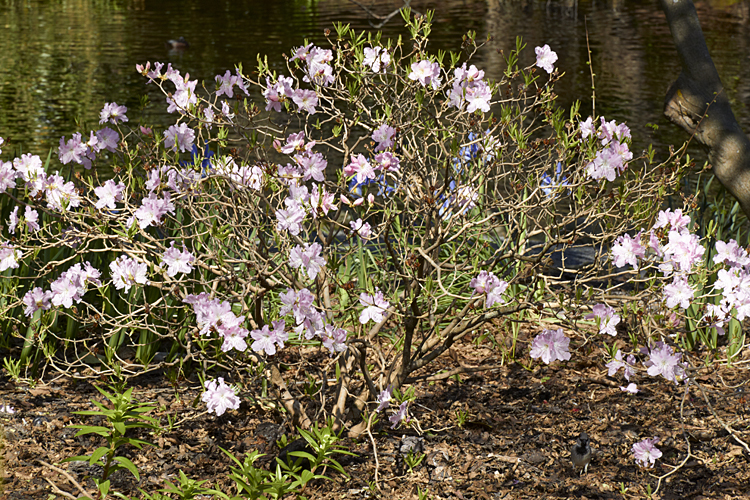 Rhododendron schlippenbachii, a deciduous azalea native to Korea, Manchuria and nearby parts of Russia. It grows to around 1.2m tall, with a rather spreading habit and its flowers open with the young spring leaves. It often produces vivid autumn foliage colour.